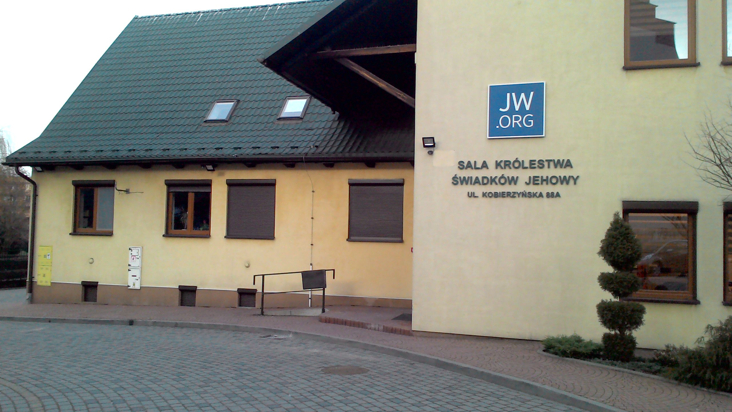 KIngdom Hall in Cracow